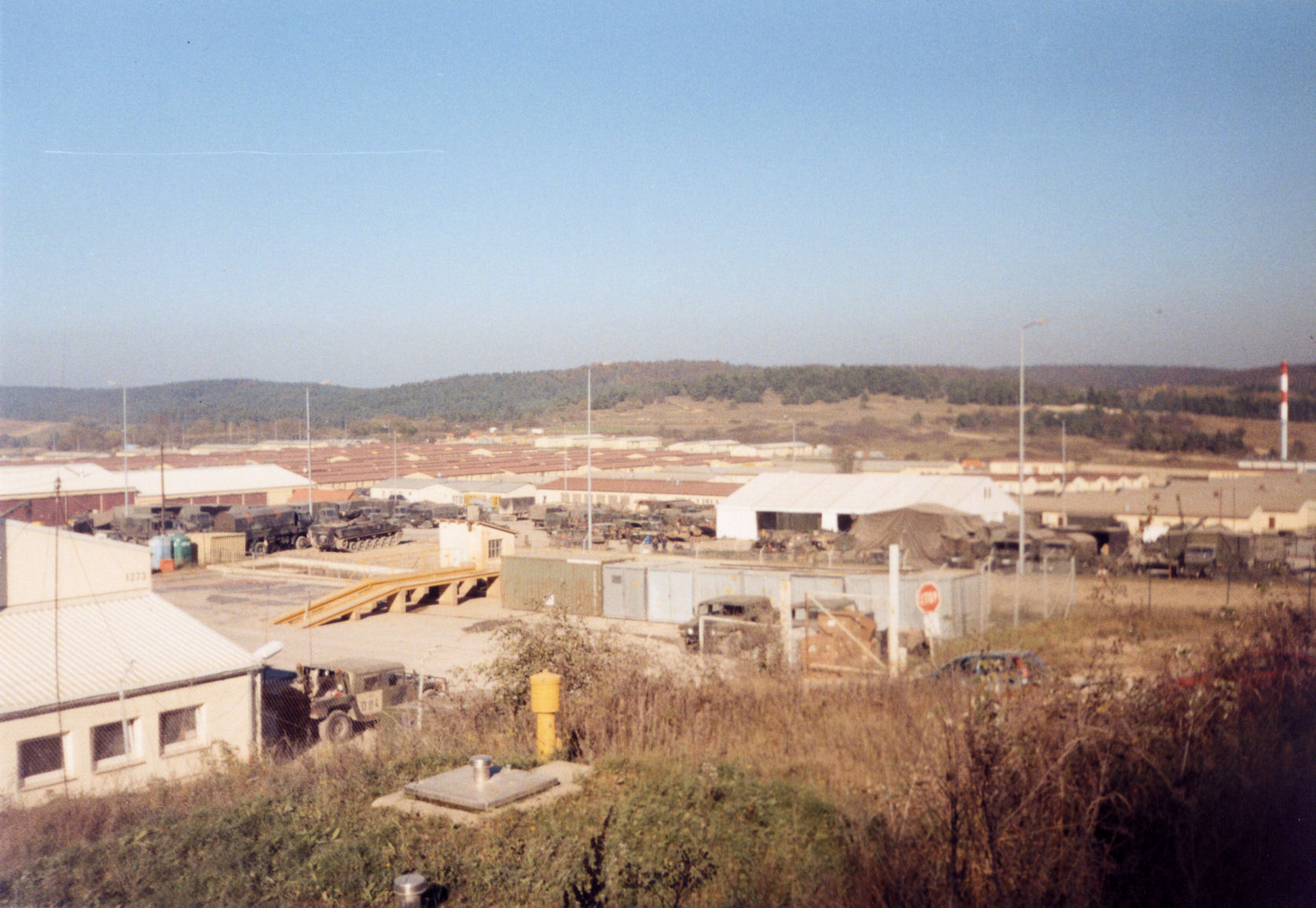 Baracks of training area Hohenfels